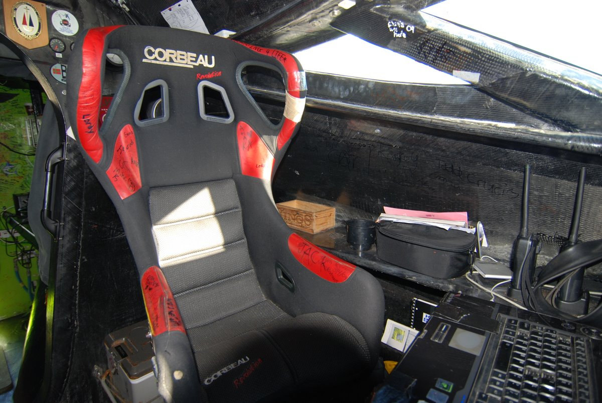 Classy skipper's seat on Earthrace. Made for skinny bottoms :-) Mine didn't fit!